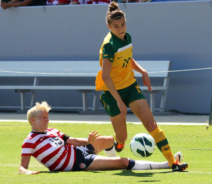 Australian WNT defender Stephanie Catley playing against the USWNT in Carson, LA on 12 September 2012